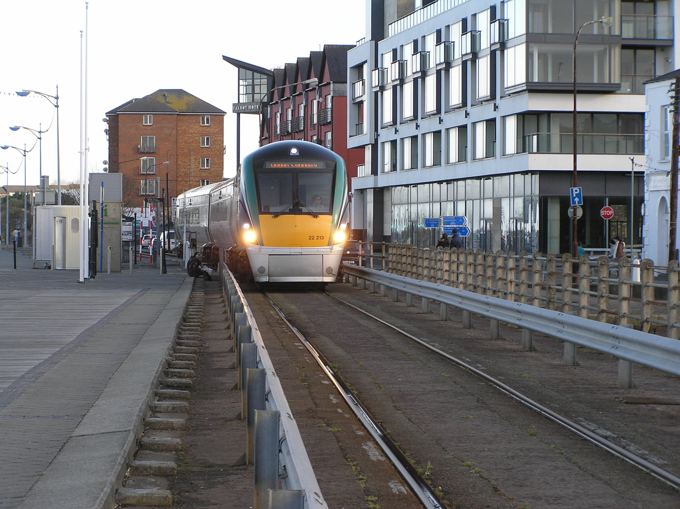 Picture of a train approaching the quays in Wexford Town from Rosslare heading to Dublin. Taken on evening 6:20pm on Sat 14th Apr 2012